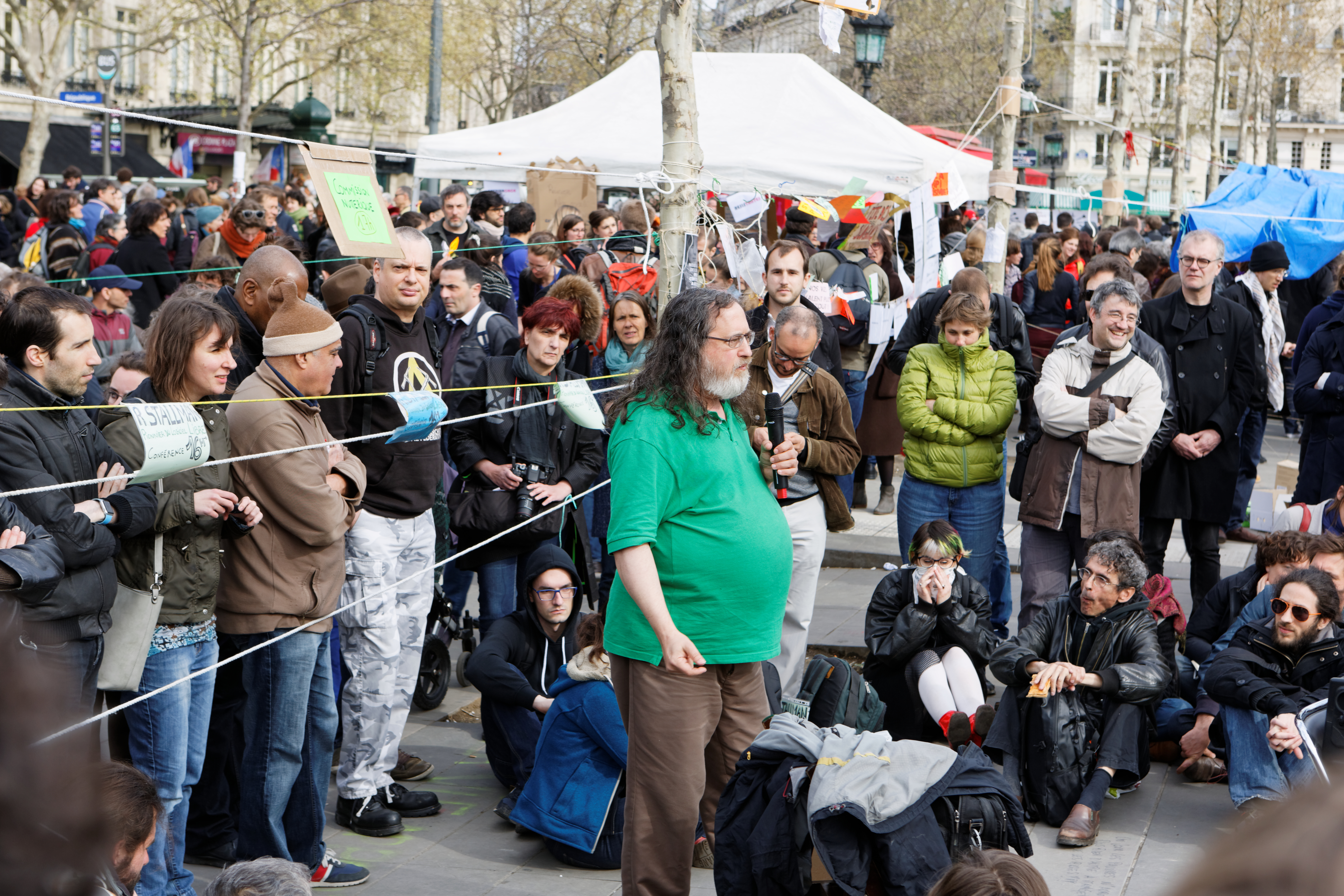 Richard Stallman at Place de la République (Paris), April 17, 2016.